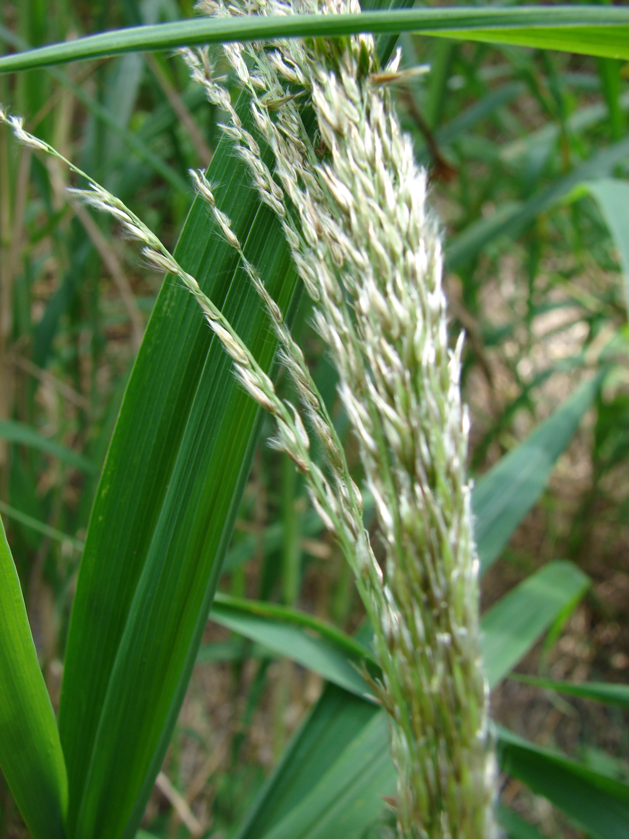 Digitaria insularis (seedheads). Location: Midway Atoll, East of northsouth runway Sand Island